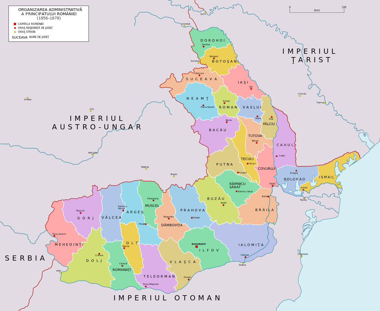 Romanian Judetse 1856-1878.